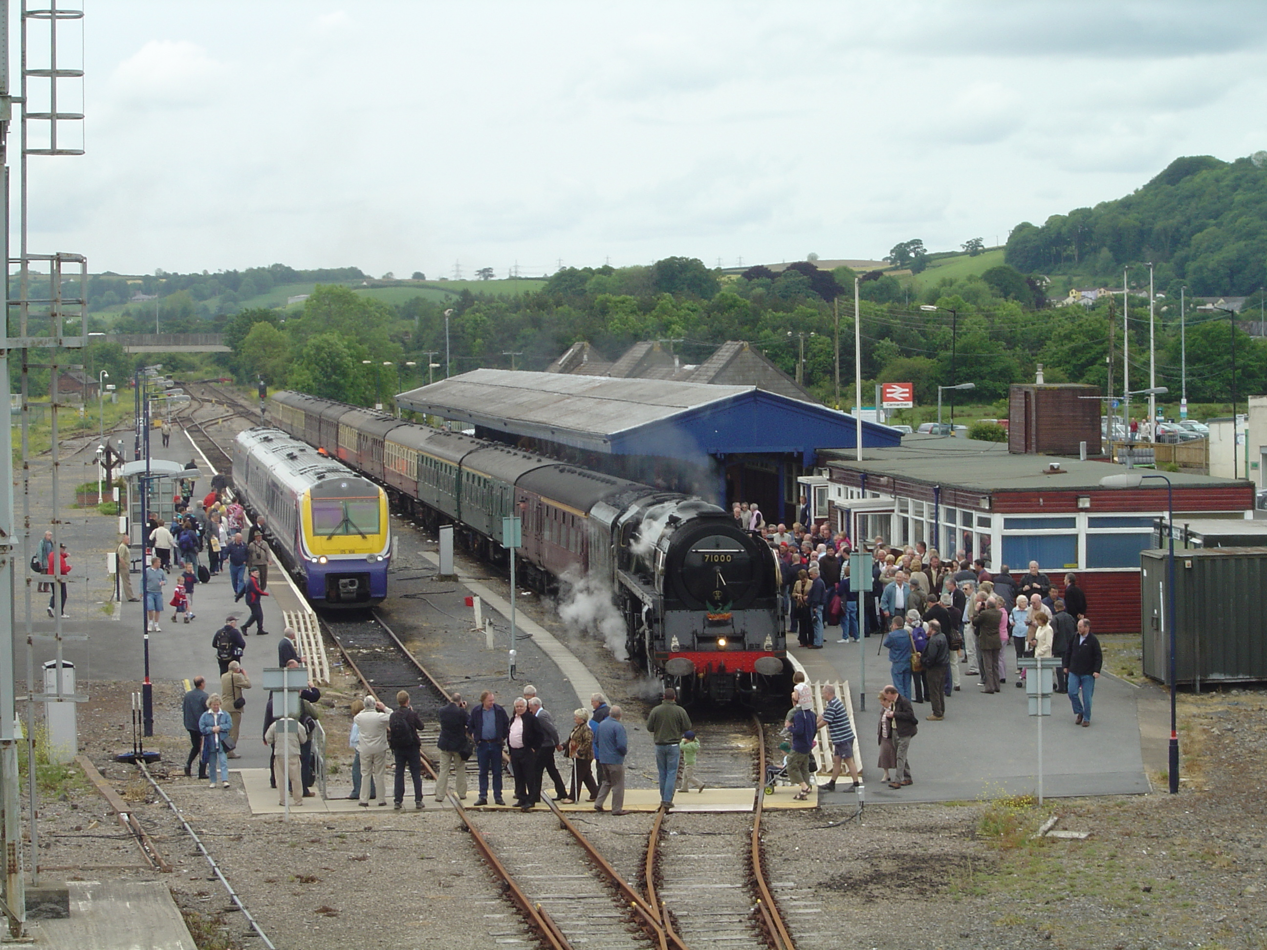 BR standard class 8 71000 Duke of Gloucester at Carmarthen railway station